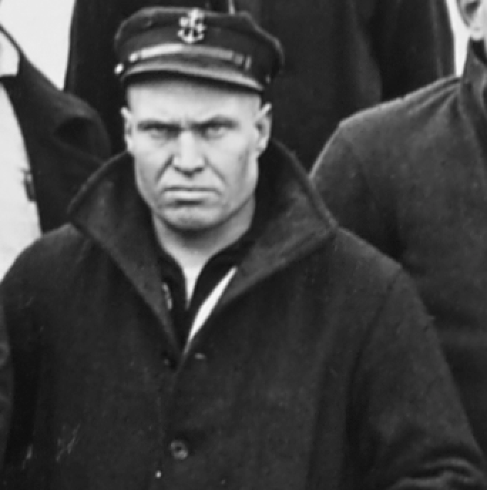 Boatswain of the USS S-4